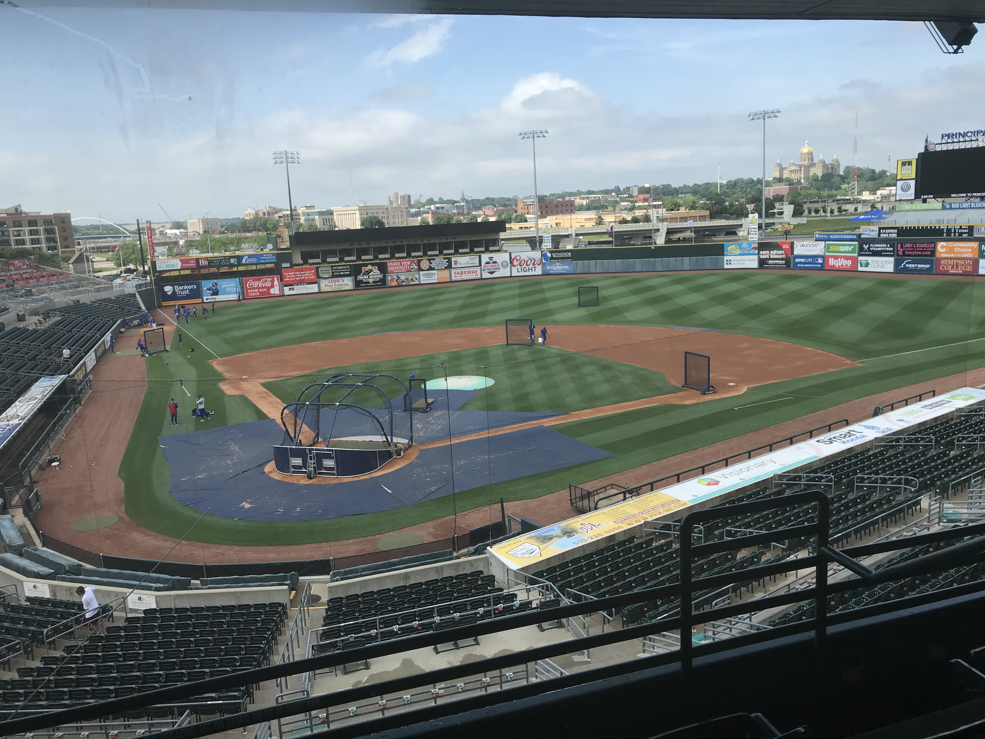 Principal Park as seen from the press box in June 2019